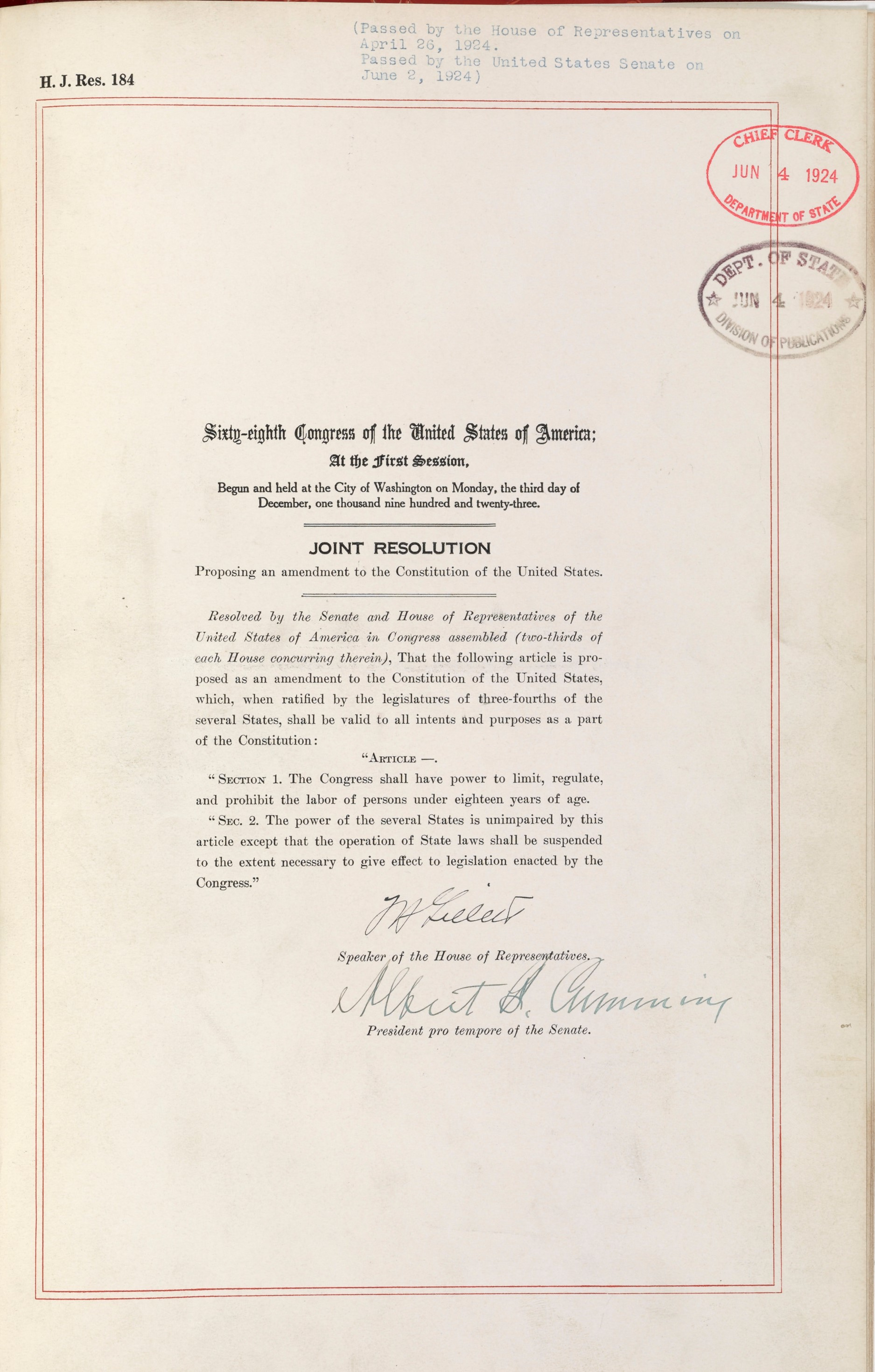 Proposed amendment to the United States Constitution empowering the federal government to regulate child labor